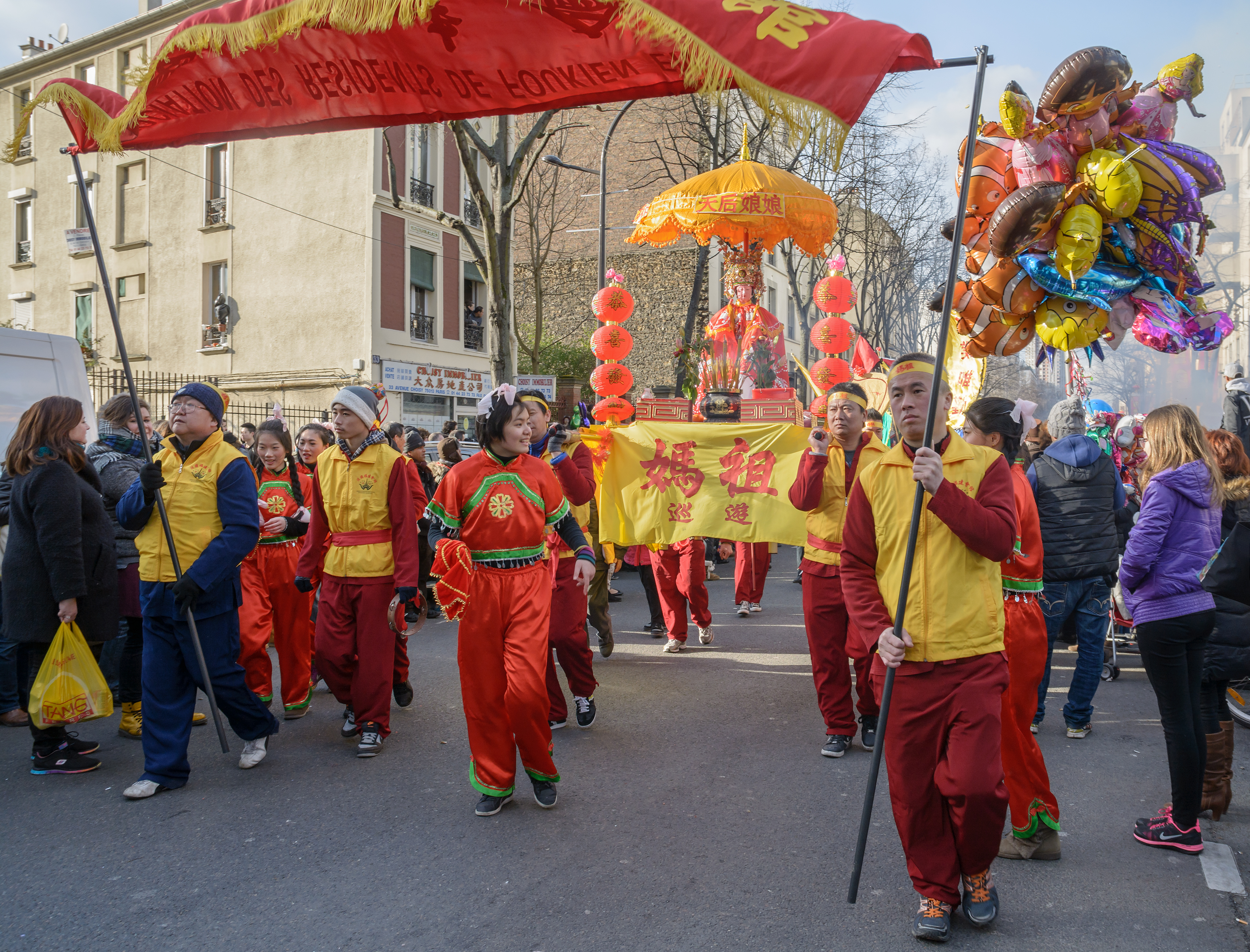 Chinese New Year 2015 in the 13th arrondissement of Paris